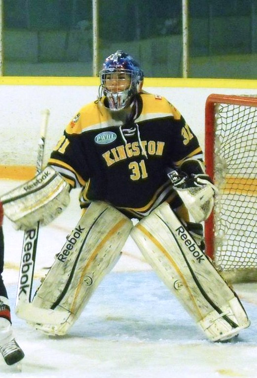 Taken by Devan Mighton during 2013-14 PWHL season.